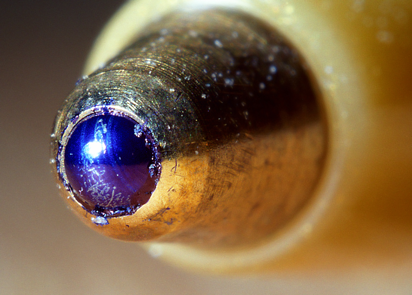 A highly magnified image of the tip of a ballpoint pen.